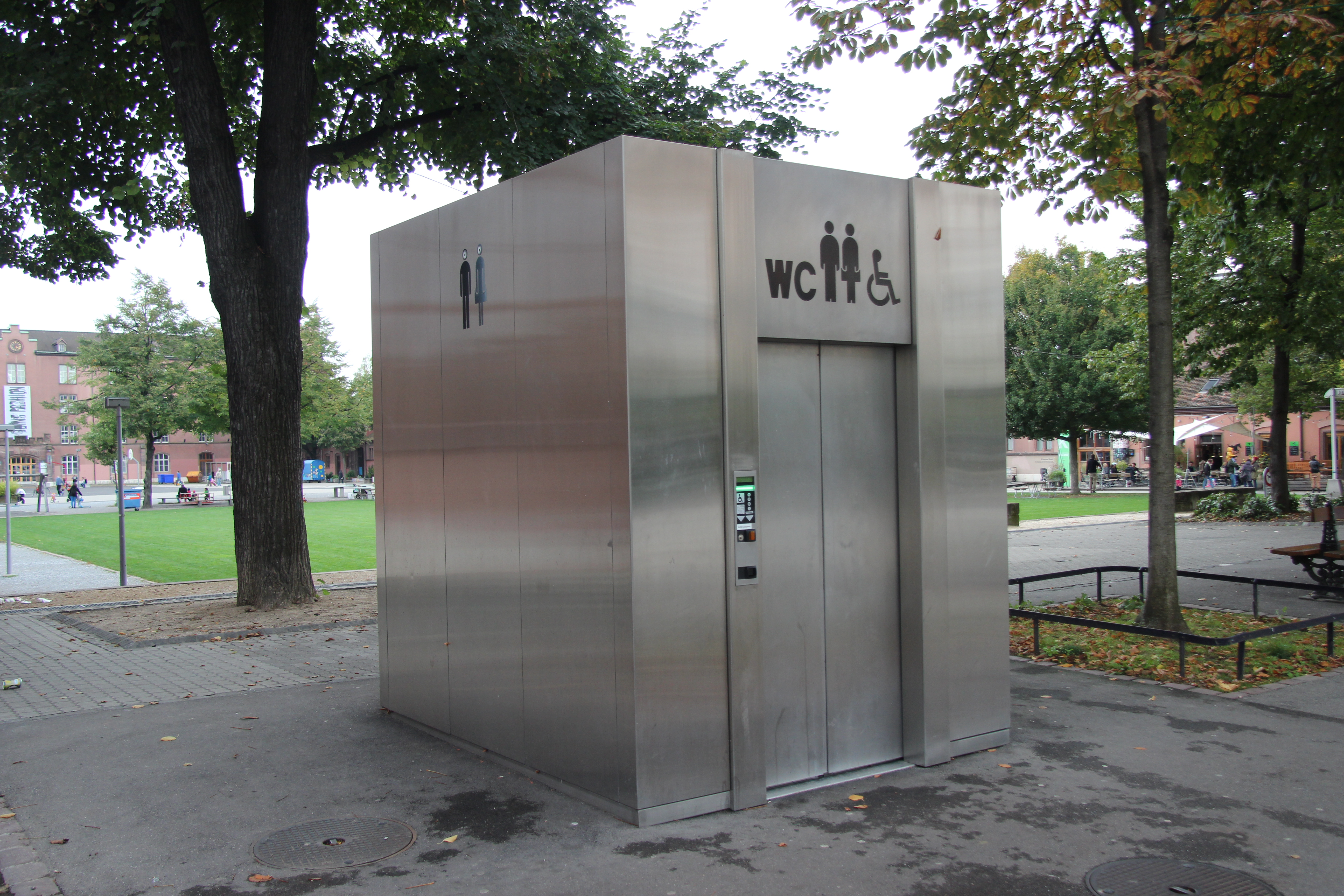 Public toilet Kaserne Basel